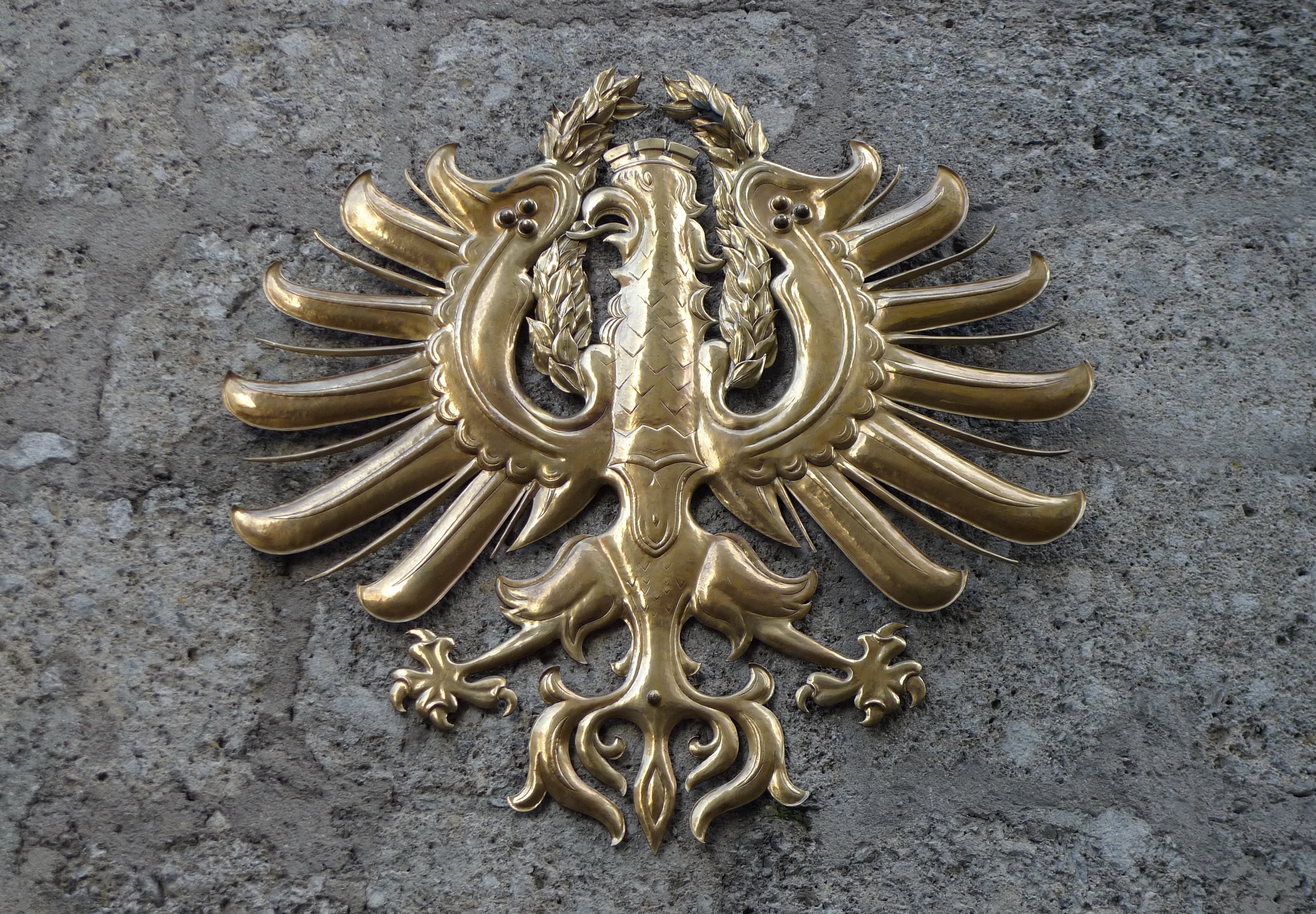 Golden eagle (symbol), Hotel "Goldener Adler", Innsbruck, Tyrol, Austria